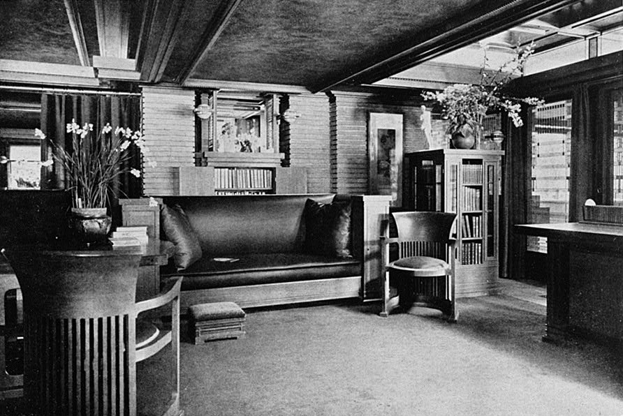 Living room north of Darwin D. Martin House, 125 Jewett Parkway, Buffalo, Erie County, NY